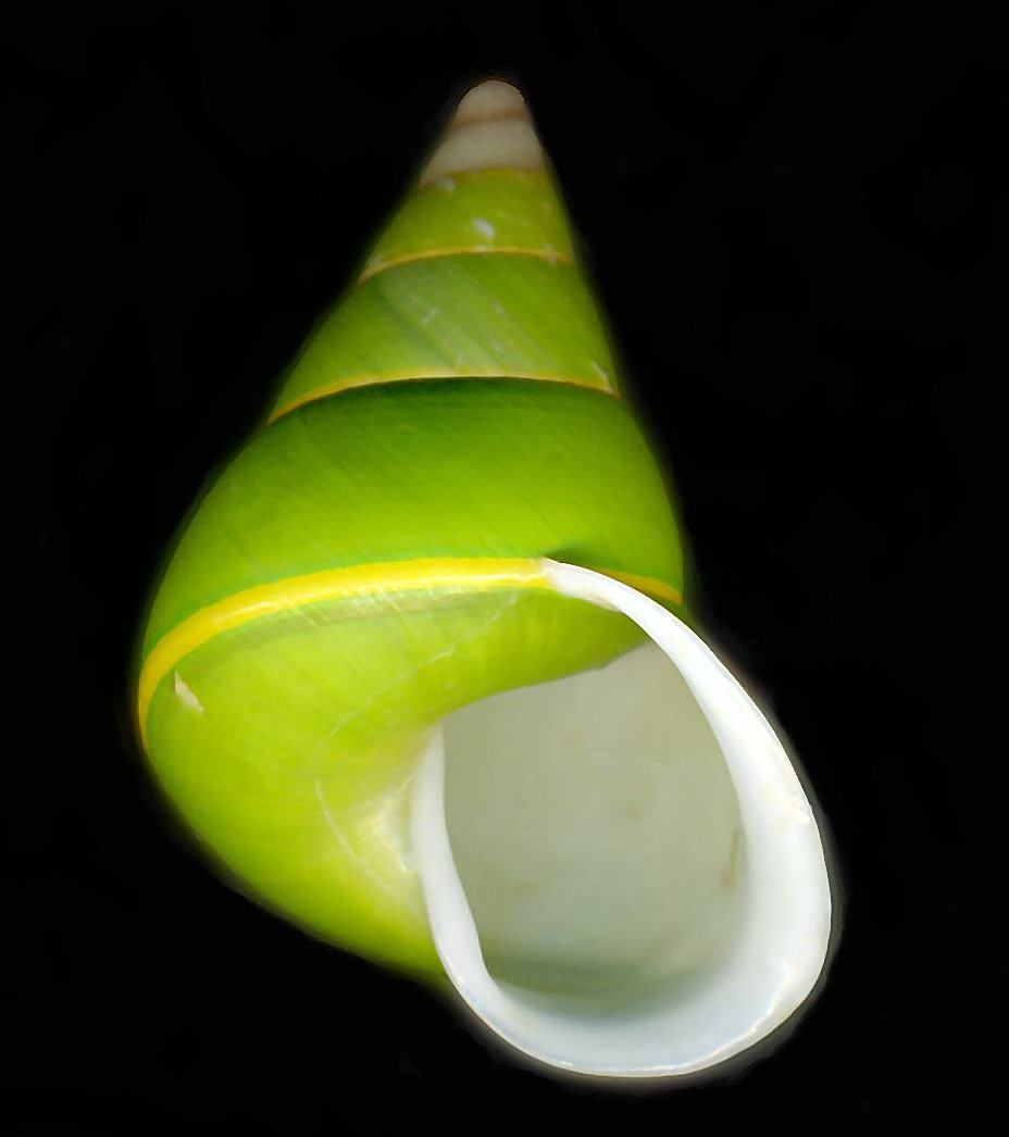 The endangered land snail, Papuina pulcherrima, also called Papustyla pulcherrima, from Manus Island, Papua New Guinea